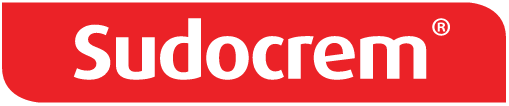 Modern Sudocrem logo